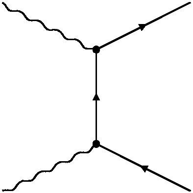 Two photons interact to create a fermion-antifermion pair